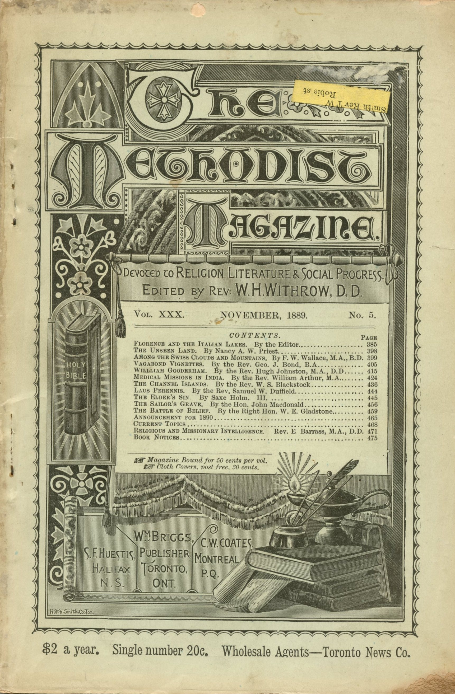 Cover of the November 1889 edition of the Methodist Magazine (Canada)